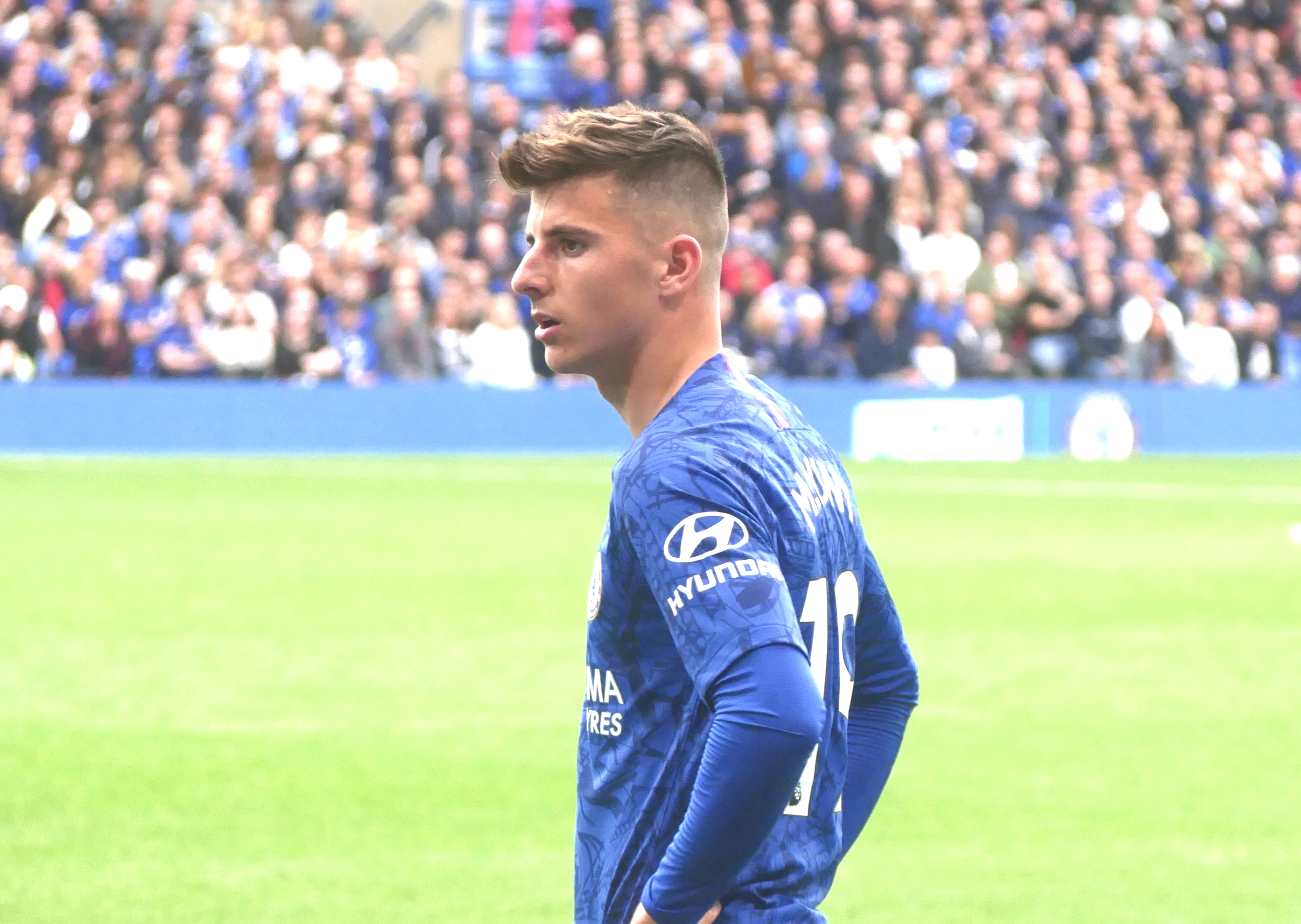 Mason Mount Chelsea v Brighton Oct 2019